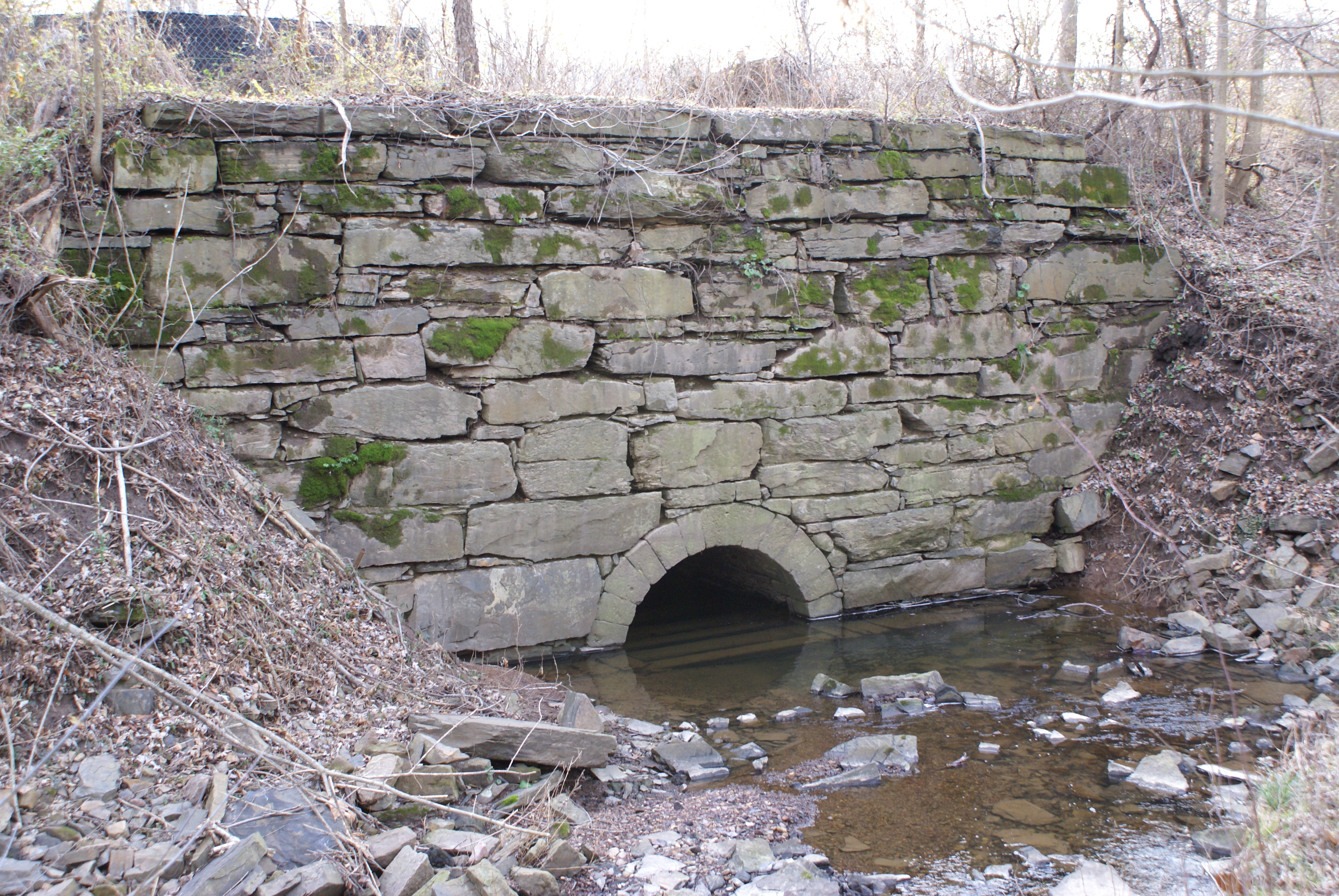 Stone aqueduct built for the Schuylkill Canal over Crossmans Run, was reused temporarily for the Schuylkill River Trail around 2008.